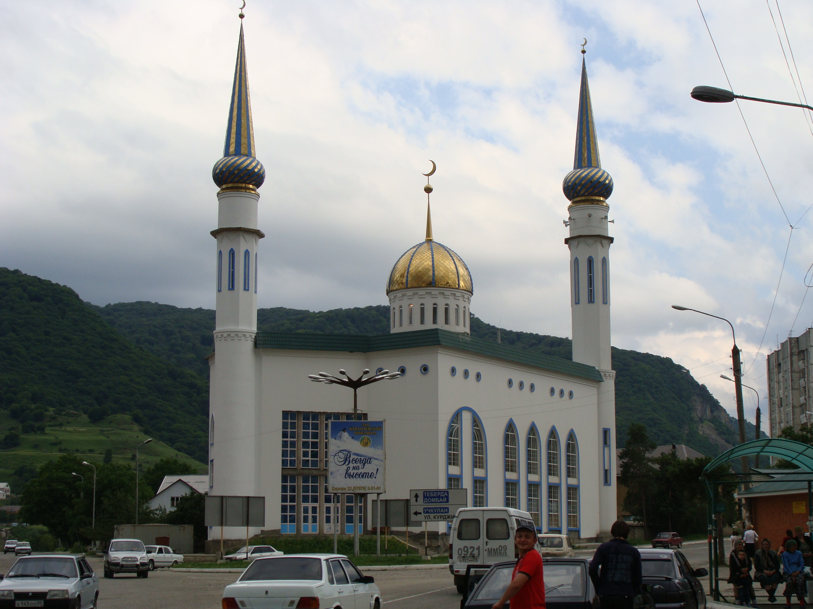 Central mosque of Karachaevsk